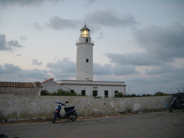 Lighthouse of La Mola, Formentera, Balearic Islands, at daybreak.